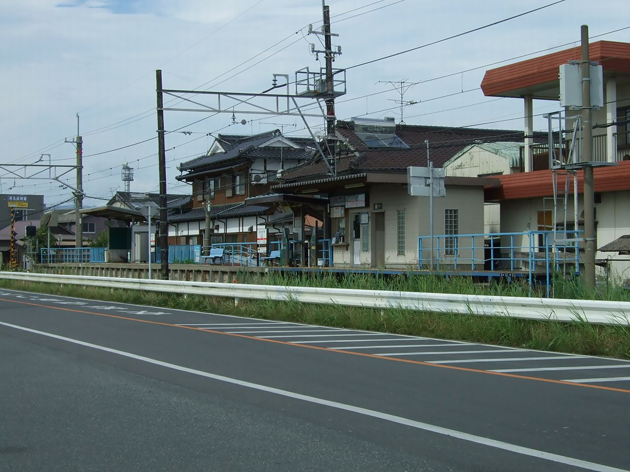 Ozeki Station on Nishitetsu Amagi Line